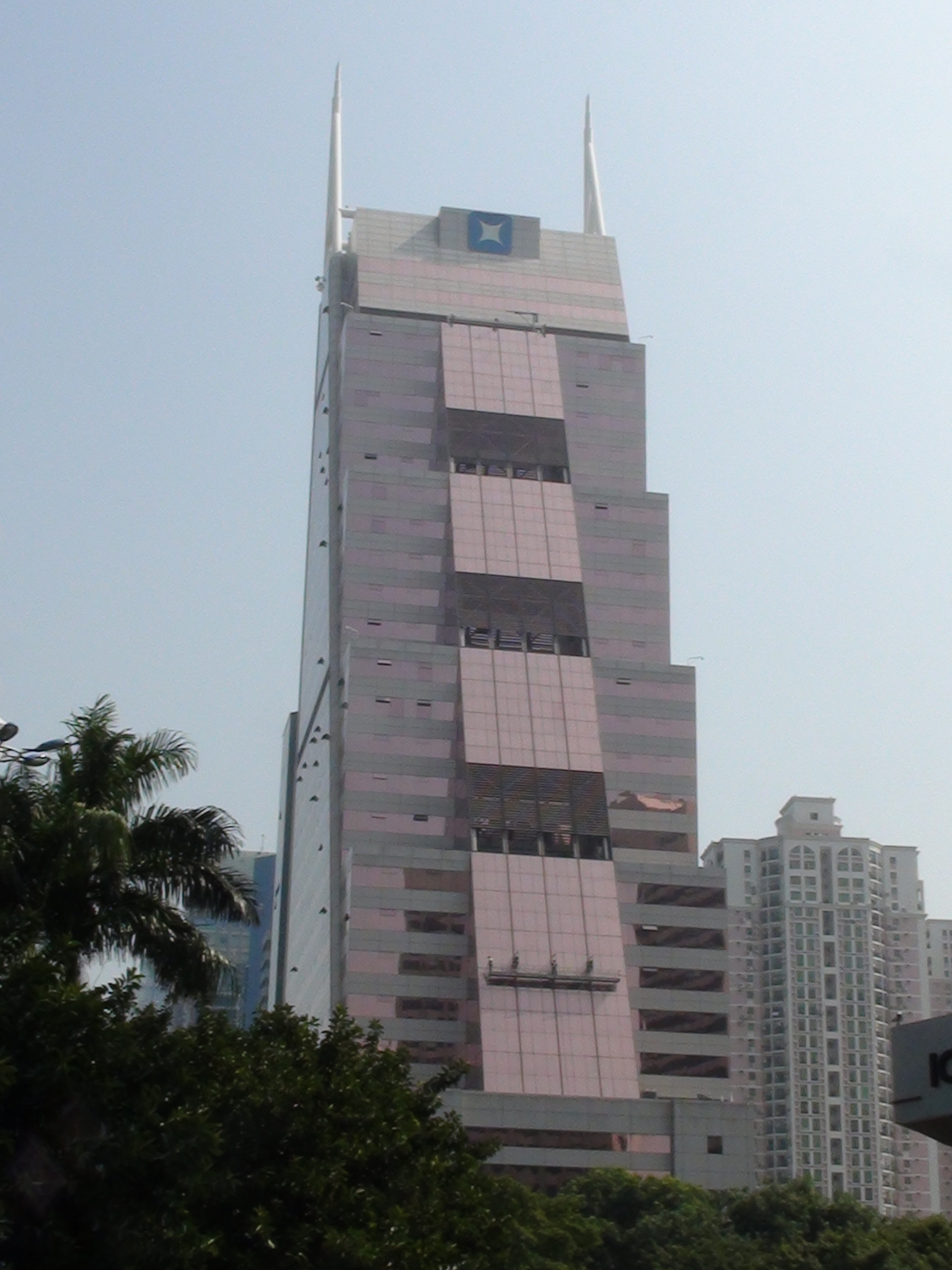 深圳发展银行大厦